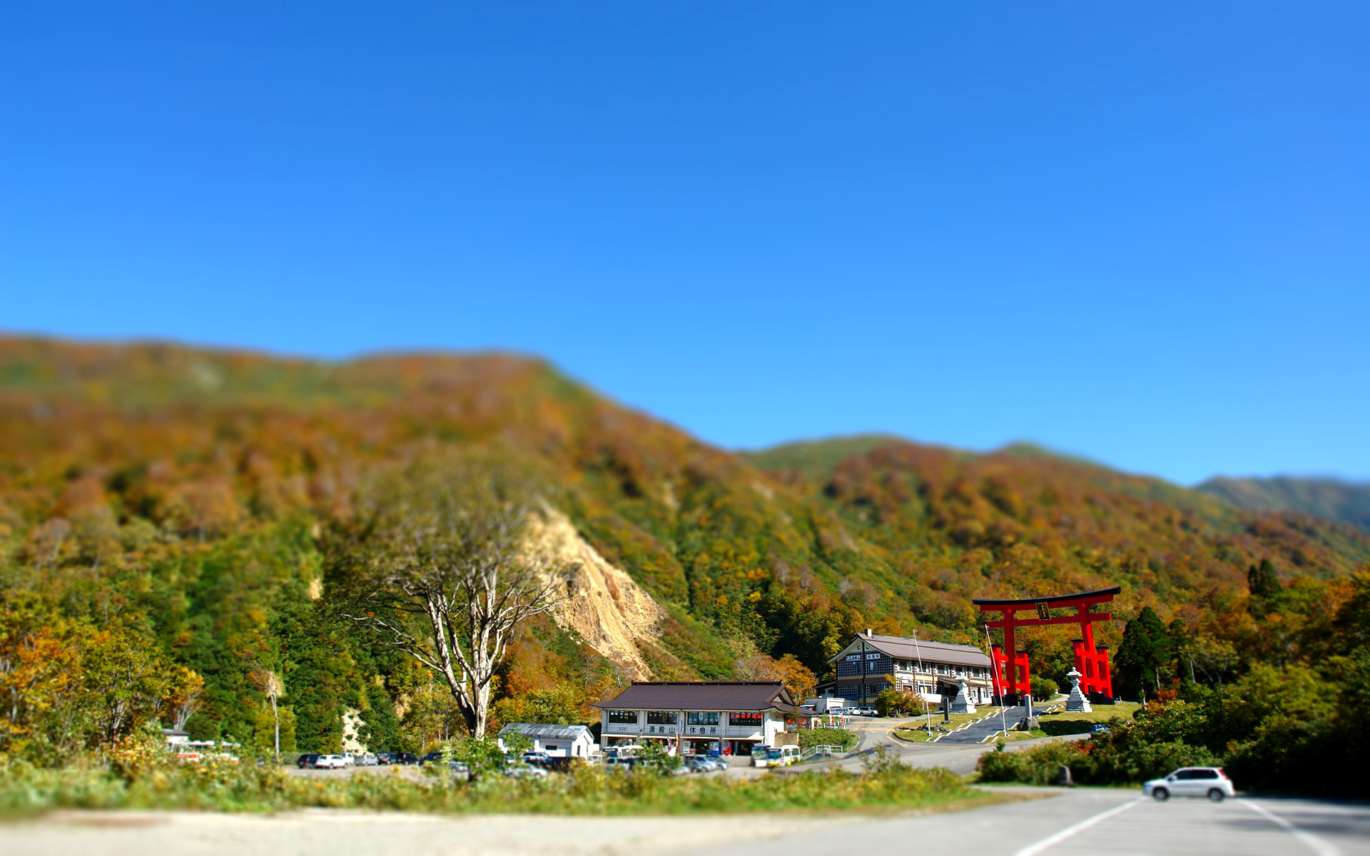 Yudonosan jinja